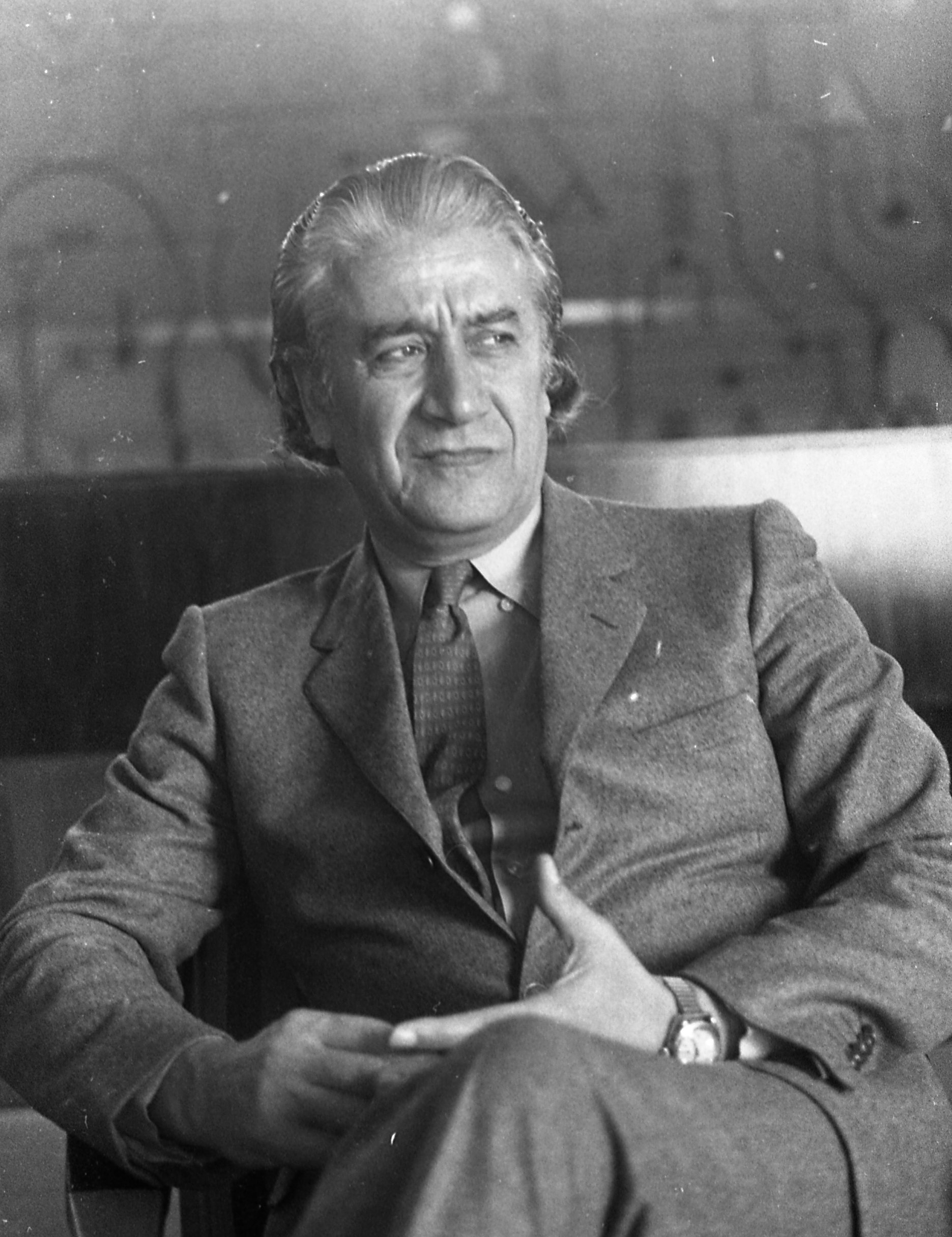 Swedish Radio Symphony Orchestra visit to Israel. The conductor Maestro Sergiu Celibidache.